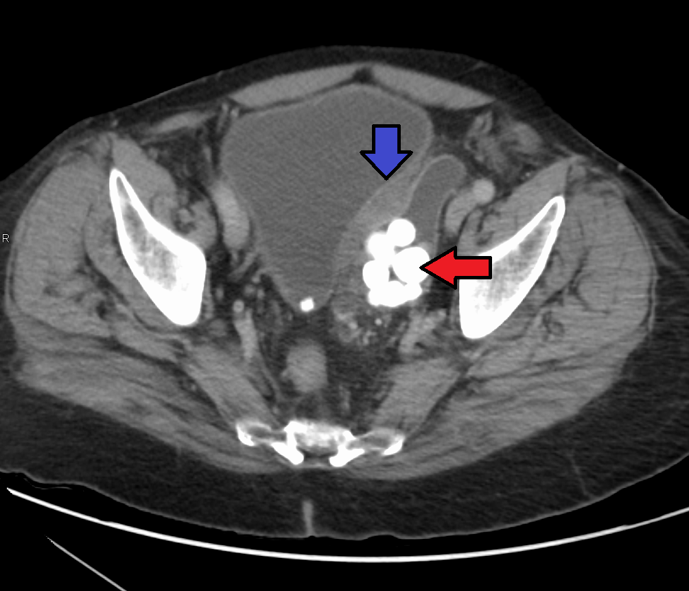 Bladder diverticula containing stones. Also note that the bladder wall is thickened due to possible transitional cell carcinoma.